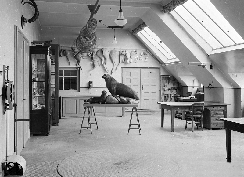 Taxidermy office, 1923, Museum Wiesbaden